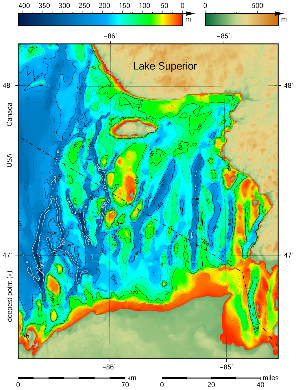 Lake Superior eastern part bathymetric relief map contoured with interval 25 m (100 m with thicker lines). The deepest point is marked with "×". For land the vertical datum is sea level, for bathymetry low water datum of the lake. According to NGDC information, Lake Superior data this map is based on are incomplete. The map was created using the Generic Mapping Tools, GMT, version 5.1.1.